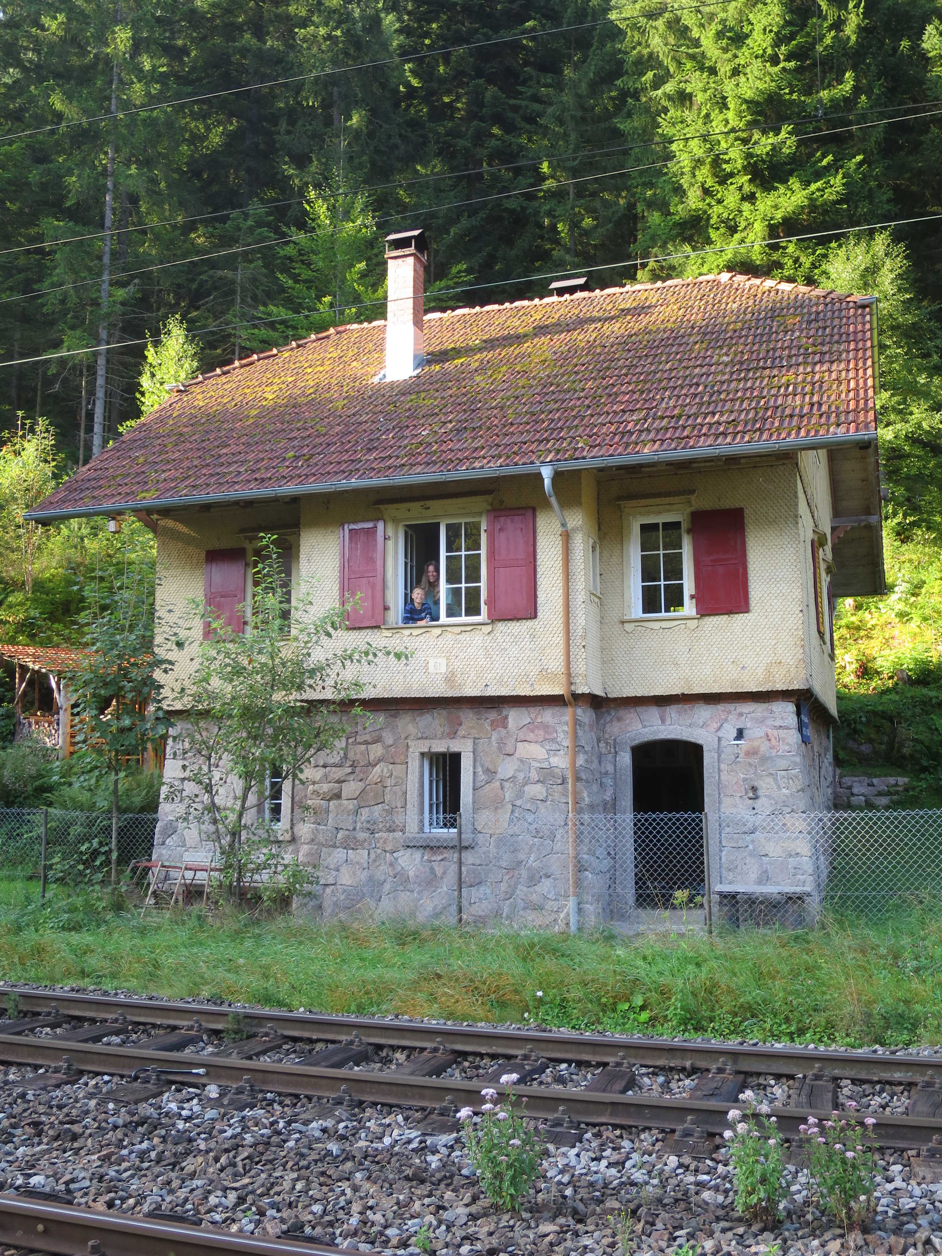 Signalman's quarter at km 60,1 of Badische Schwarzwaldbahn (historic Monument)